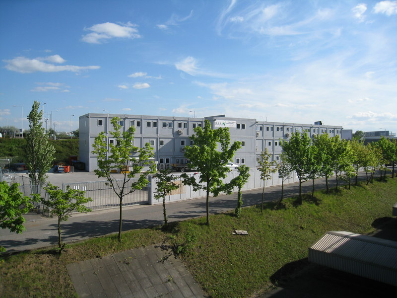 A BAA Limited building, behind the Terminal 4 Short Stay Car Park